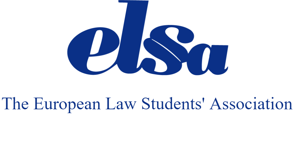 Logo of the European Law Students' Association as of 2016 (ICM MALTA 69TH)